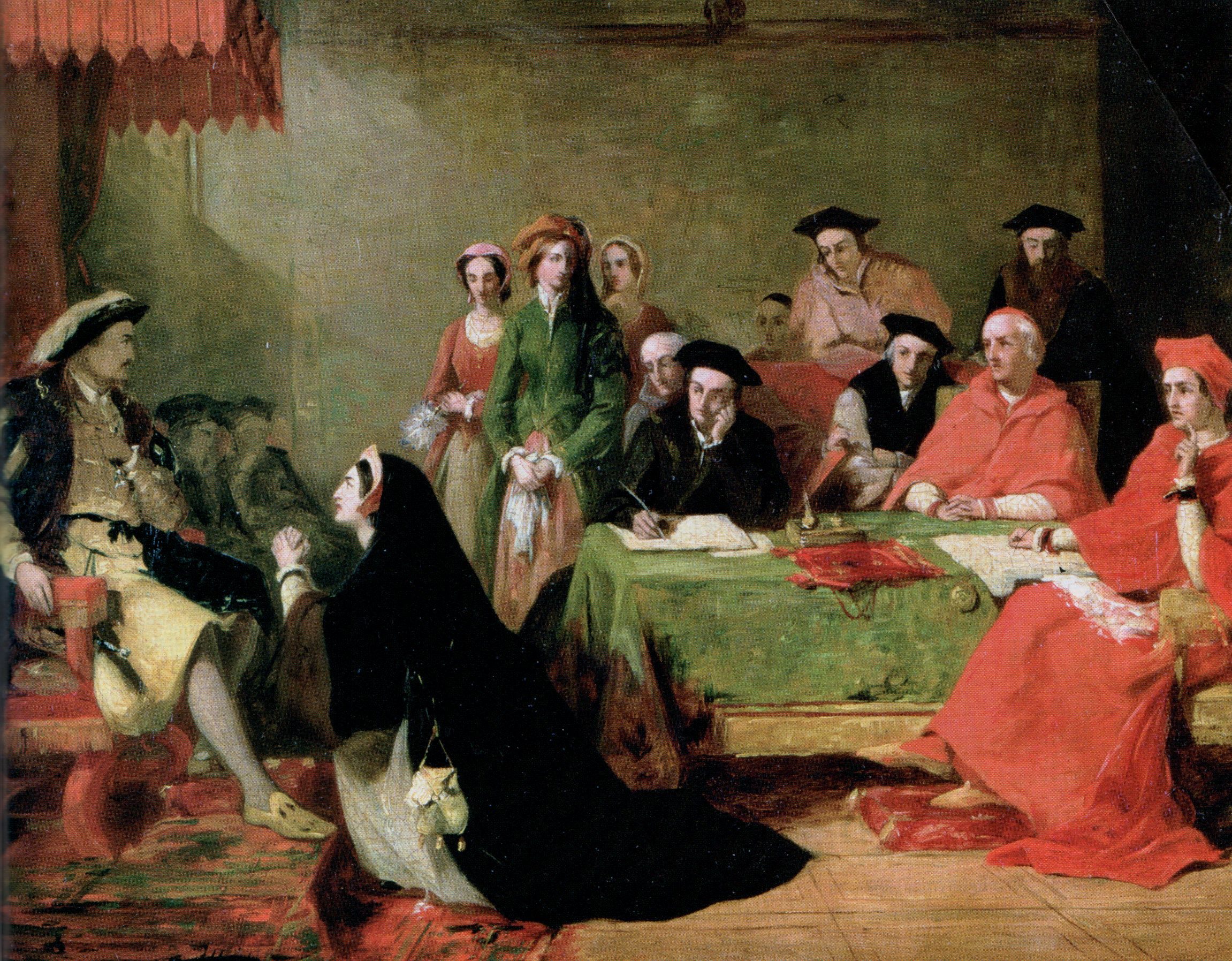 Catherine of Aragon pleads her case against divorce from Henry VIII. Painting by Henry Nelson O'Neil.